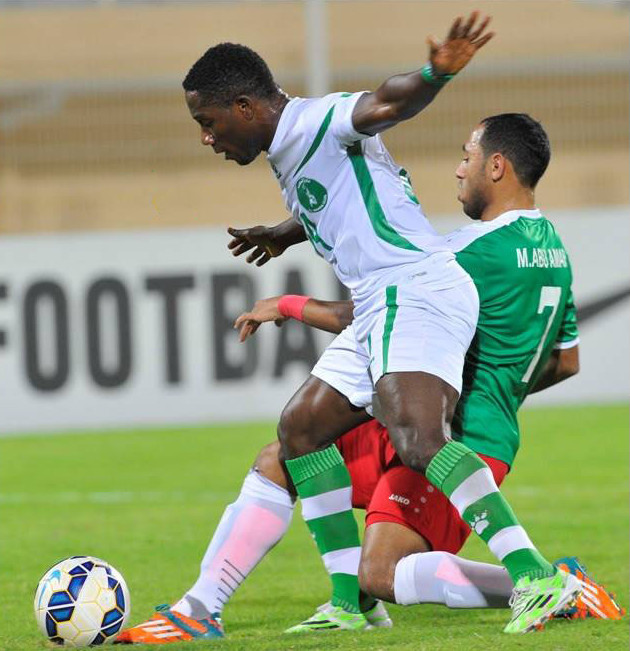 Daniel Odafin in a match against Al Wehdat of Jordan in 2015 AFC Cup. 10 March 2015 Buraimi Sports Complex Photographer email id